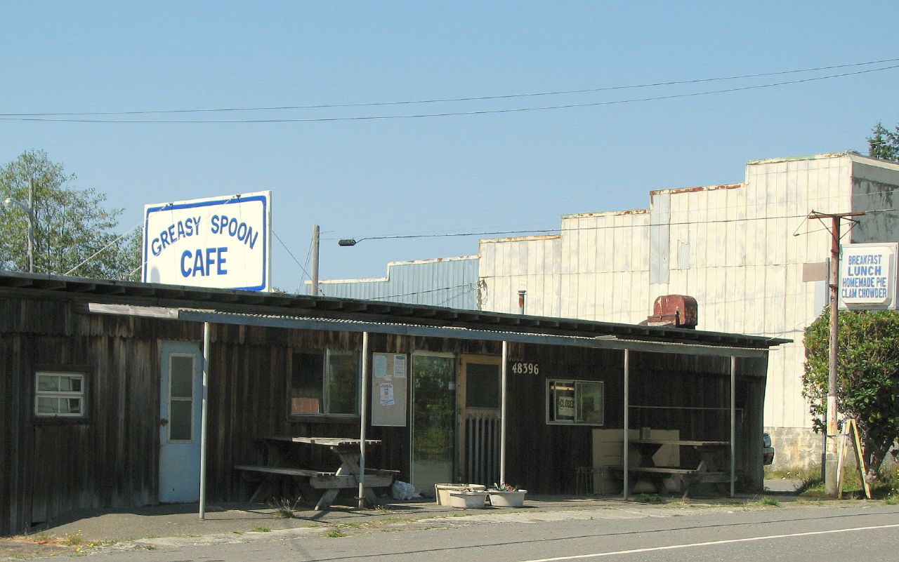 It was closed, which wasn't very surprising.